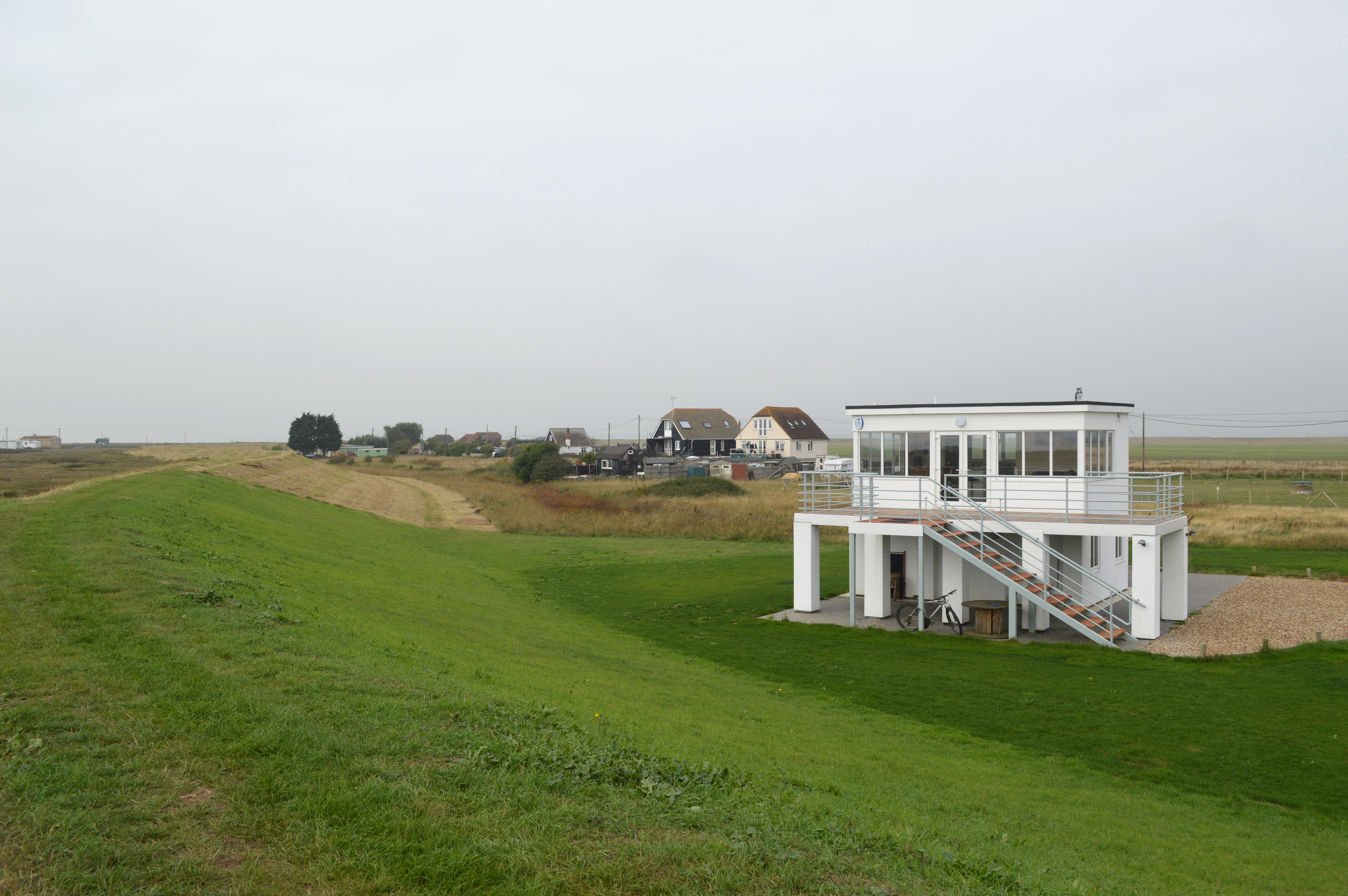 Houses on Wall Street, Lee-over-Sands, except for the closest white house which is on Leewick Lane, from the sea wall. There are some other houses on the seaward side of the wall, a few of which can be seen in the extreme distant left. The closest white house is named "The Old Café" and an "Art Deco inspired property" in holiday home rental information.[1]